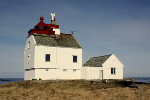 Kalsholmen Light (Meløy-Sweden)